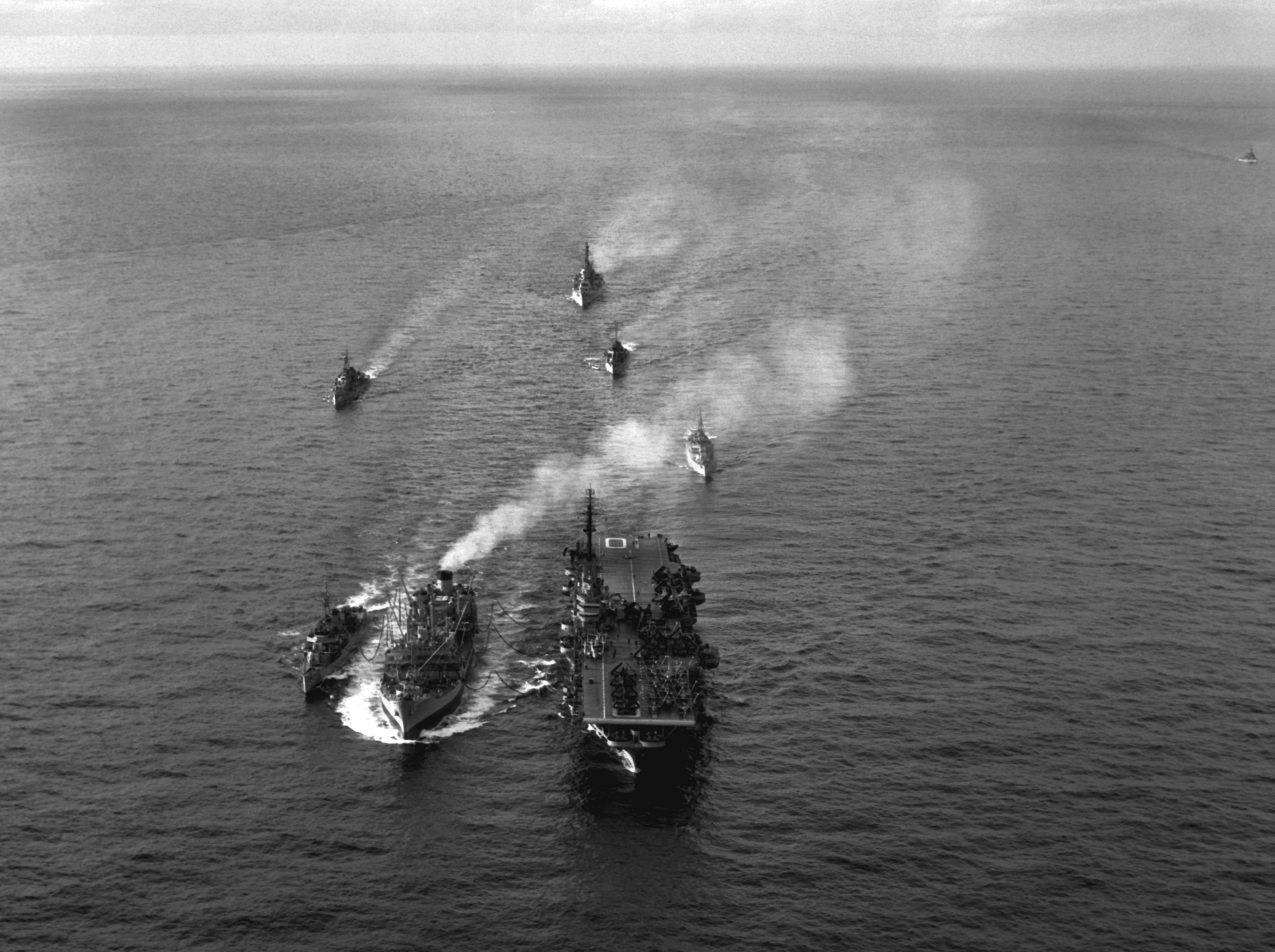 The U.S. aircraft carrier USS Yorktown (CVA-10) and a Fletcher-class destroyer being refueled by an oiler in 1953. Yorktown, with assigned Carrier Air Group 2 (CVG-2) was deploymened to the Western Pacific from 3 August 1953 to 3 march 1954. The carrier is accompanied in this picture by three Fletcher-class destroyers and an Allen M. Sumner or Gearing-class destroyer (left), and an unidentifyable destroyer (far right). A cruiser is trailing the formation. The picture is dated 1 January 1953, although the carrier was still being modernized, then. After the Second World War, the Yorktown had been mothballed for almost five years. In June of 1952, she was ordered reactivated, and work began on her at Puget Sound, Washington (USA). On 15 December 1952, she was placed in commission, but her SCB-27A conversion continued into 1953 and she conducted post-conversion trials late in January. On 20 February 1953, Yorktown was placed in full commission and conducted normal operations along the U.S. West Coast through most of the summer of 1953. On 3 August, she departed San Francisco (California) on her way to the Far East. She arrived in Pearl Harbor (Oahu, Hawaii) and remained there until the 27th at which time she continued her voyage west. On 5 September, the carrier arrived in Yokosuka (Japan). She put to sea again on the 11th to join TF 77 in the Sea of Japan. The Korean War armistice had been signed two months earlier; and, therefore, the carrier conducted training operations rather than combat missions. She served with TF 77 until 18 February 1954 at which time she stood out of Yokosuka on her way home. She made a stop at Pearl Harbor along the way and then moored at Alameda once more on 3 March.